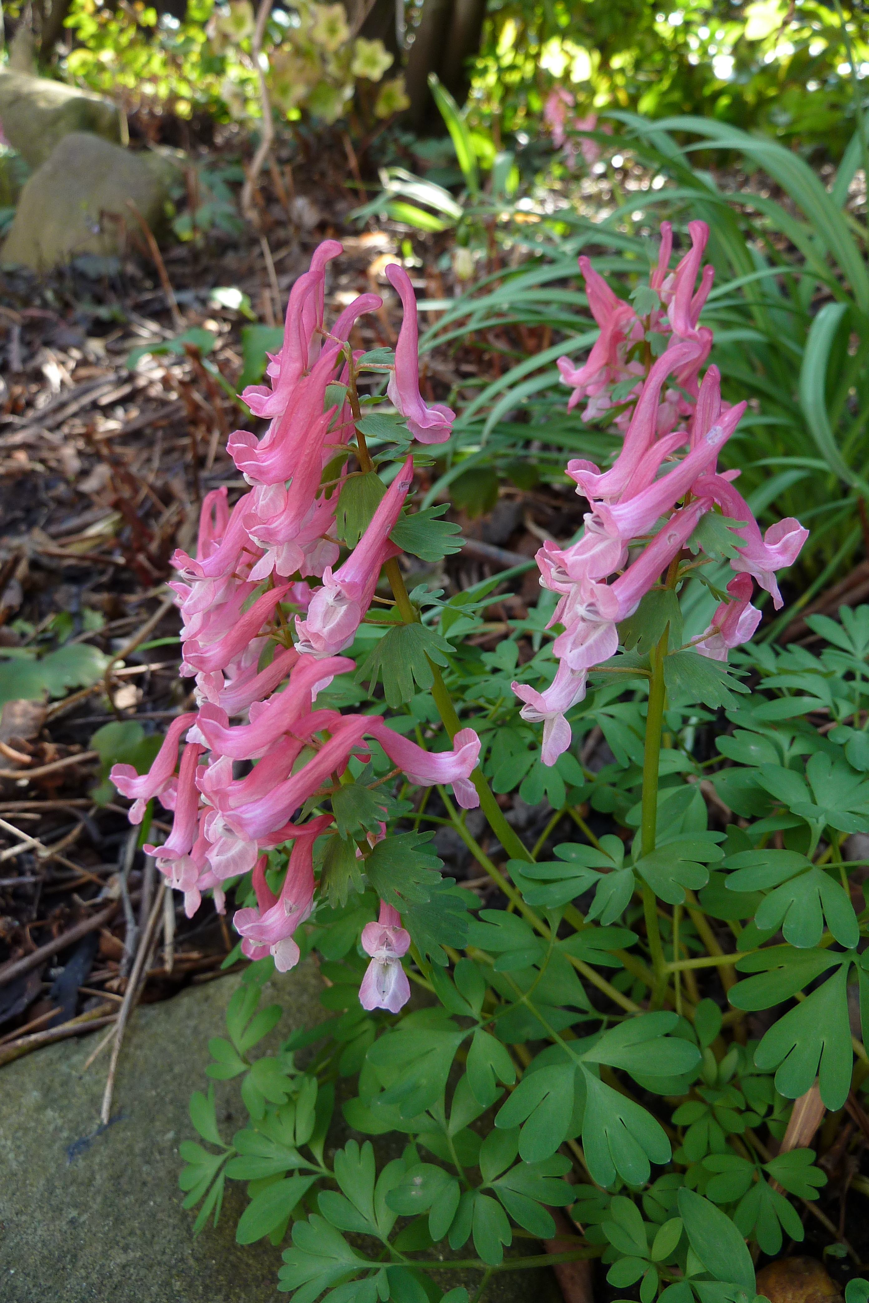 Corydalis solida 'Beth Evans'